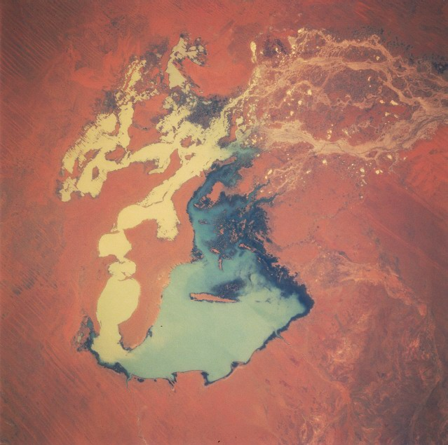 Gregory Lake, Western Australia, Australia more